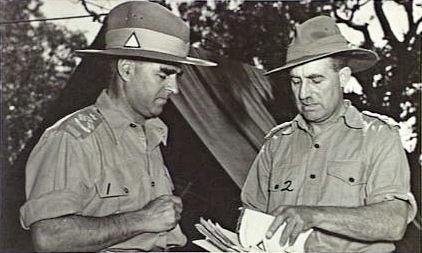 Portrait of Australians Brigadier (later Lieutenant General Sir) Henry Wells, Brigader General Staff I Corps, and Brigadier John Raymond Broadbent, Deputy Adjutant and Quartermaster General I Corps, conferring at Trinity Beach, Queensland during a staff and command course.